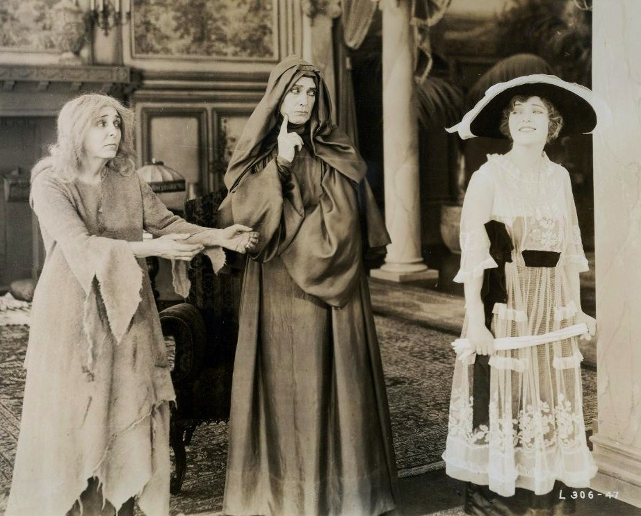 Left to right: Edythe Chapman, Charles Ogle, and Violet Heming in the film Everywoman (1919) - still